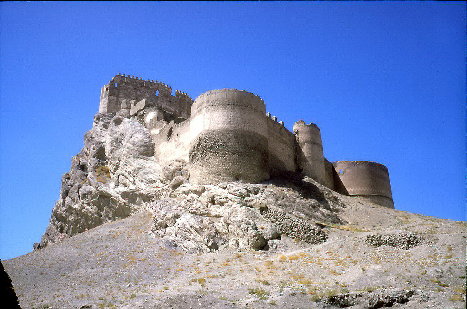 Hosap-castle